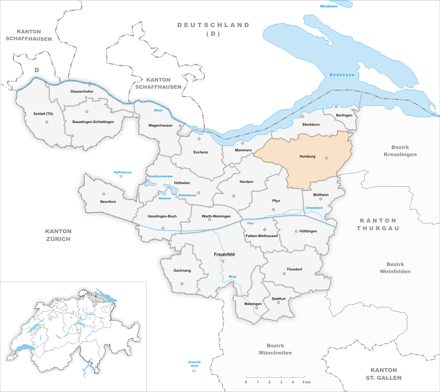 Municipality Homburg